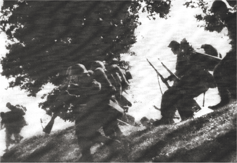 Battle of the Bzura 1939 -Polish infantry of 18 regiment in attack